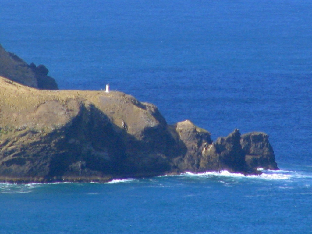 Cape Saunders lighthouse / lightbeacon, on the Otago Peninsula in New Zealand, from Sandymount, 4.5 km to the west.